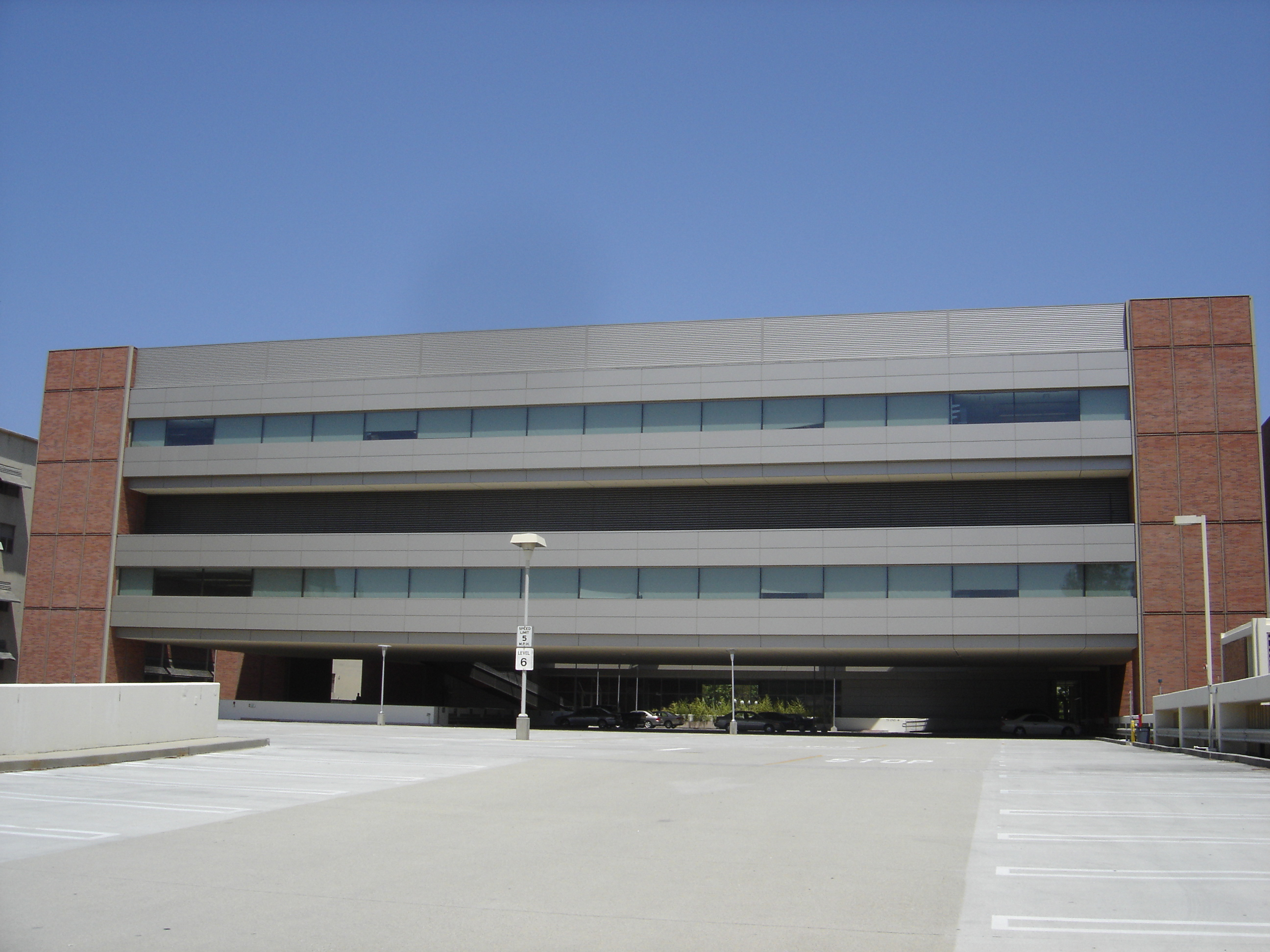 California NanoSystems Institute, exterior parking lot view, UCLA